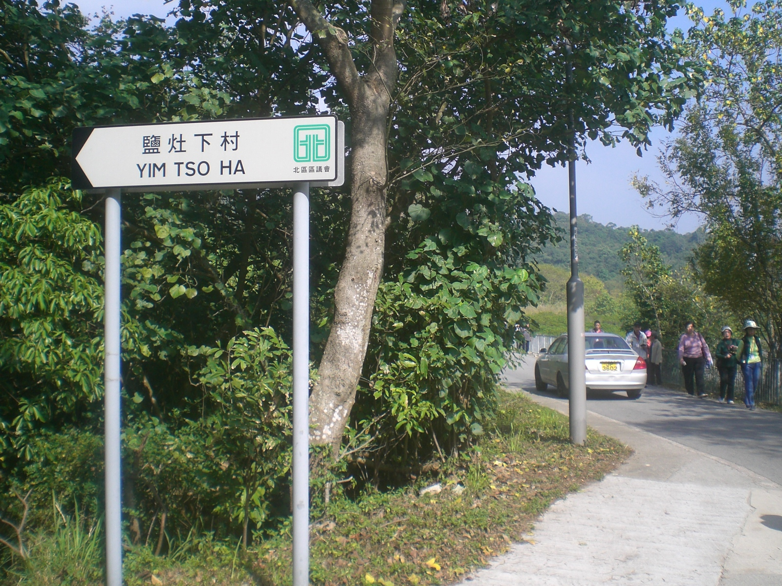 香港北區zh:鹿頸路